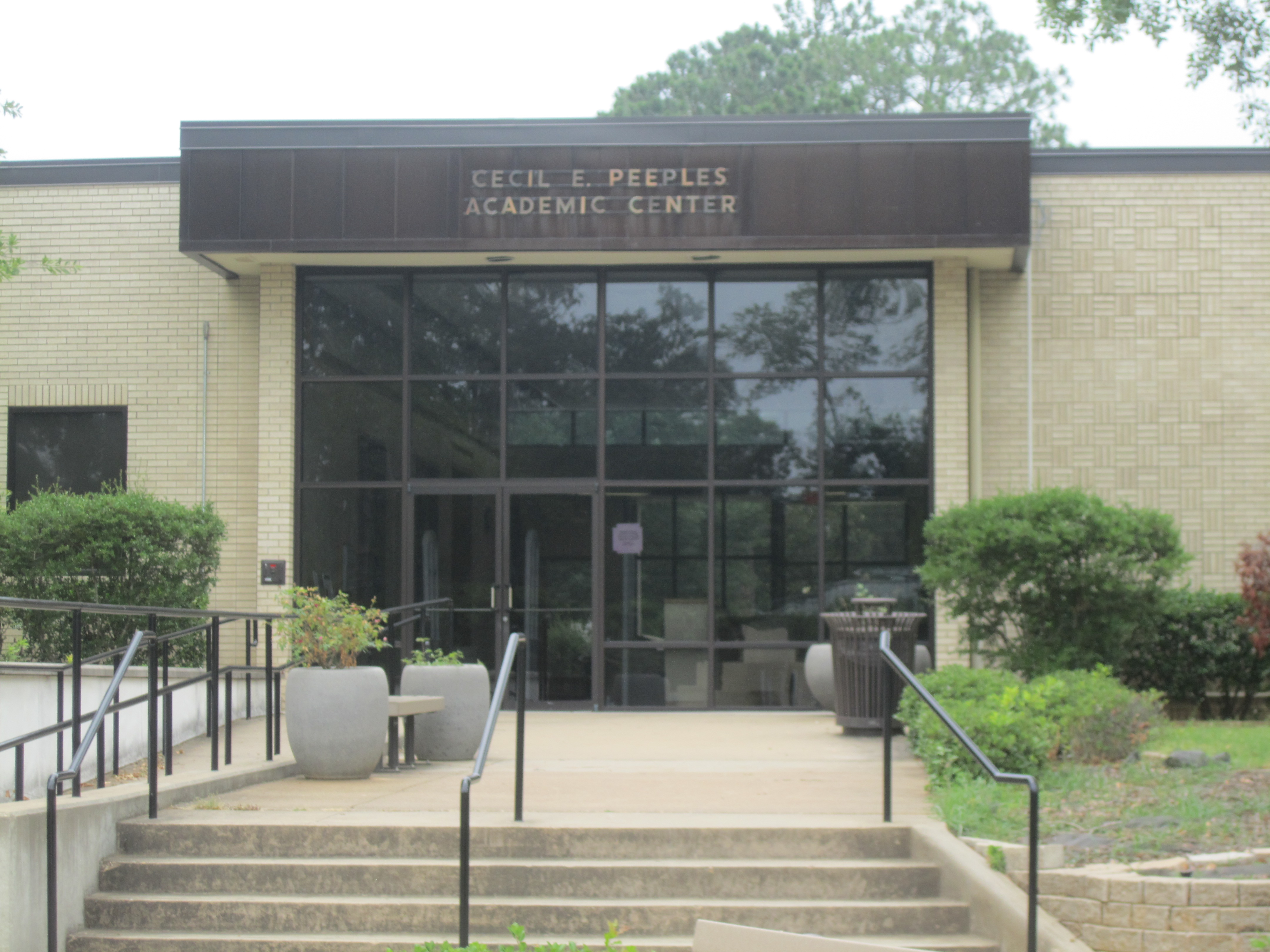 I took photo with Canon camera in Jacksonville, TX.